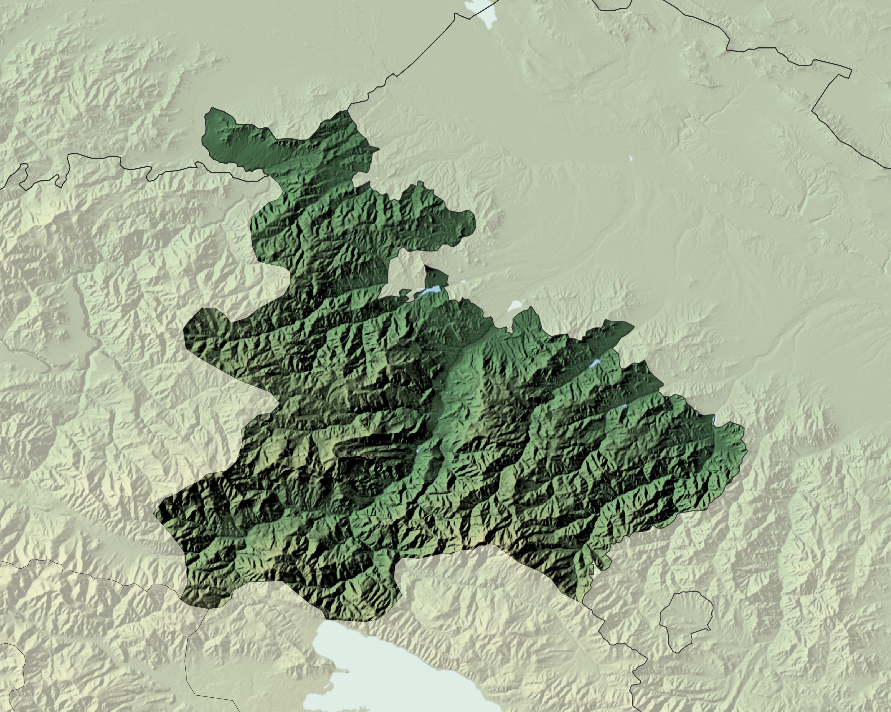 Hillshaded map of Tavush province of Armenia